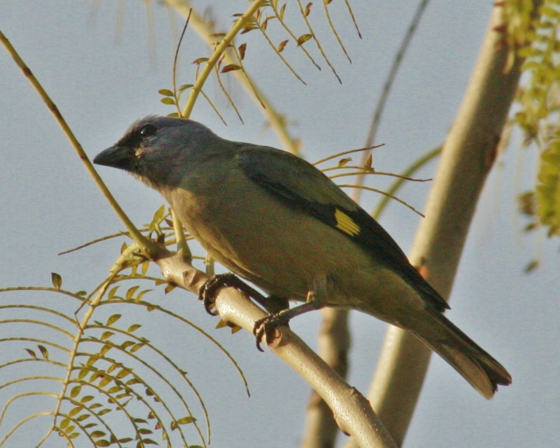 Yellow Winged Tanager on a Jacaranda Tree